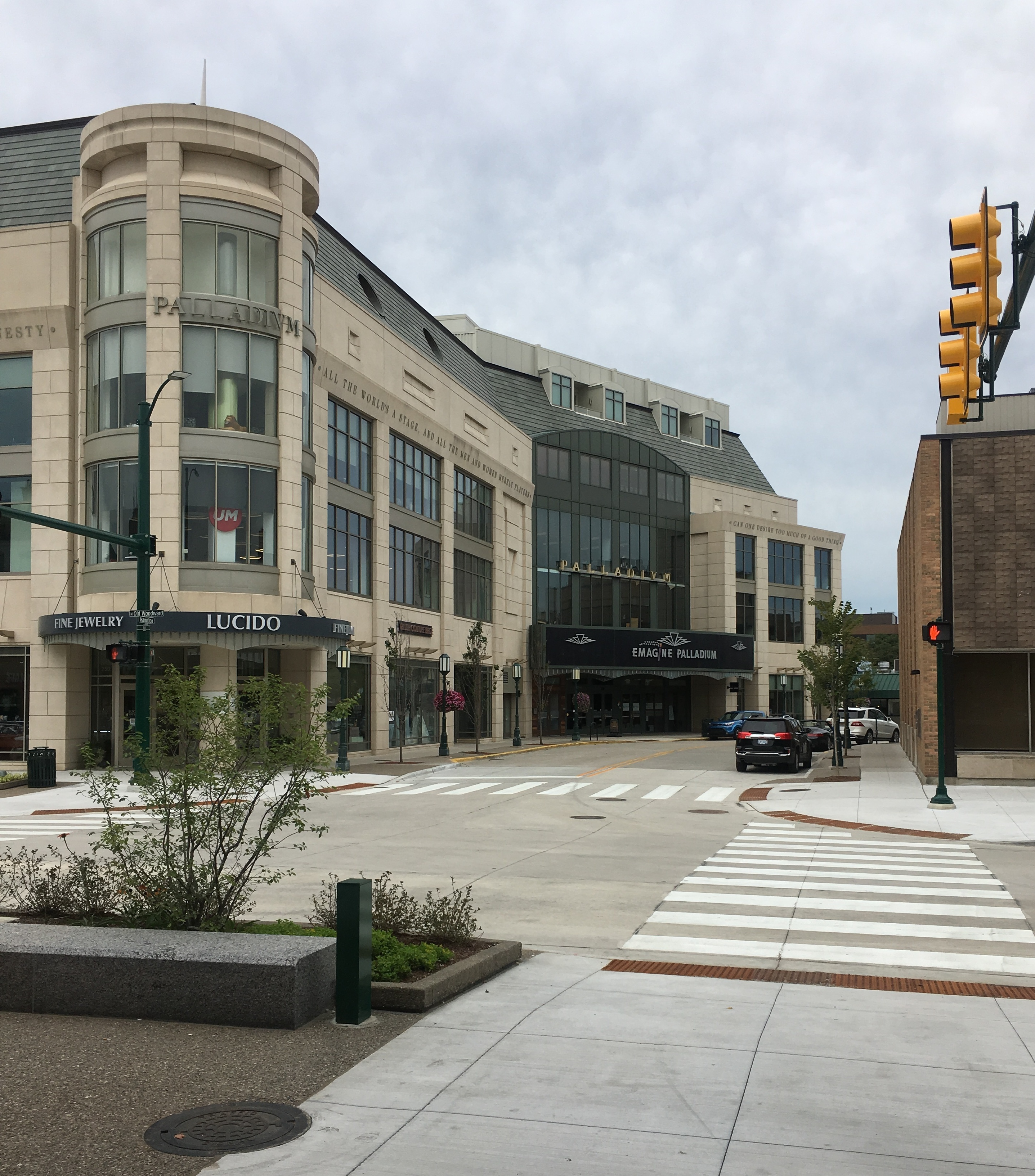 Hamilton Street in Birmingham, Michigan, with the Palladium Building to the left, including the Emagine Palladium.